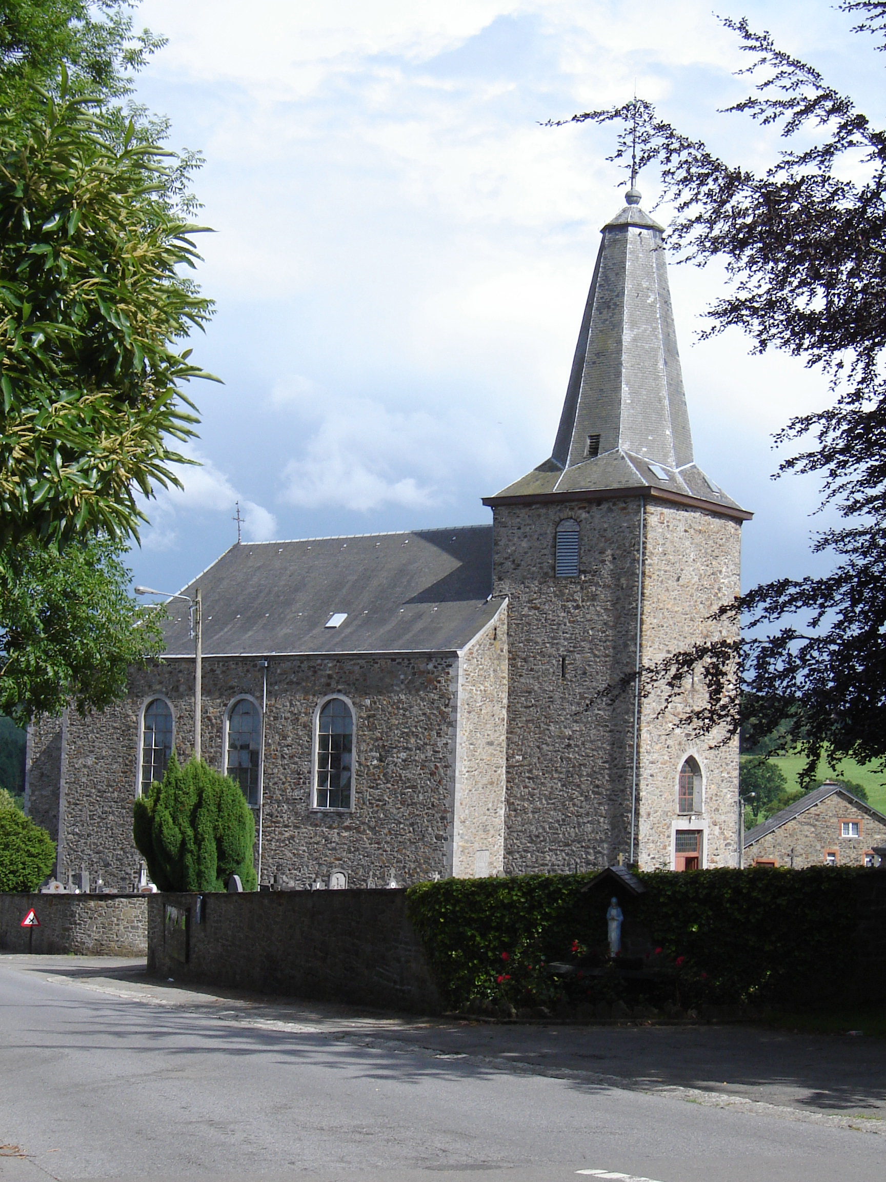 Church of Saint Mary Magdalene in Wanne. Wanne, Trois-Point, Liège, Belgium